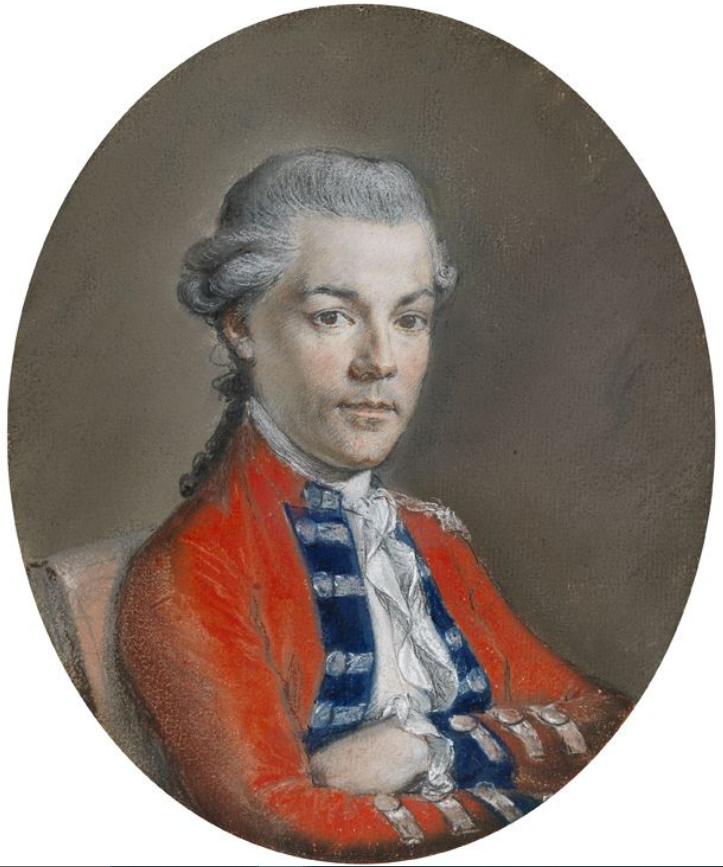 Portrait of The Earl of Carhampton Source: old print by artist unknown, circa 1750.